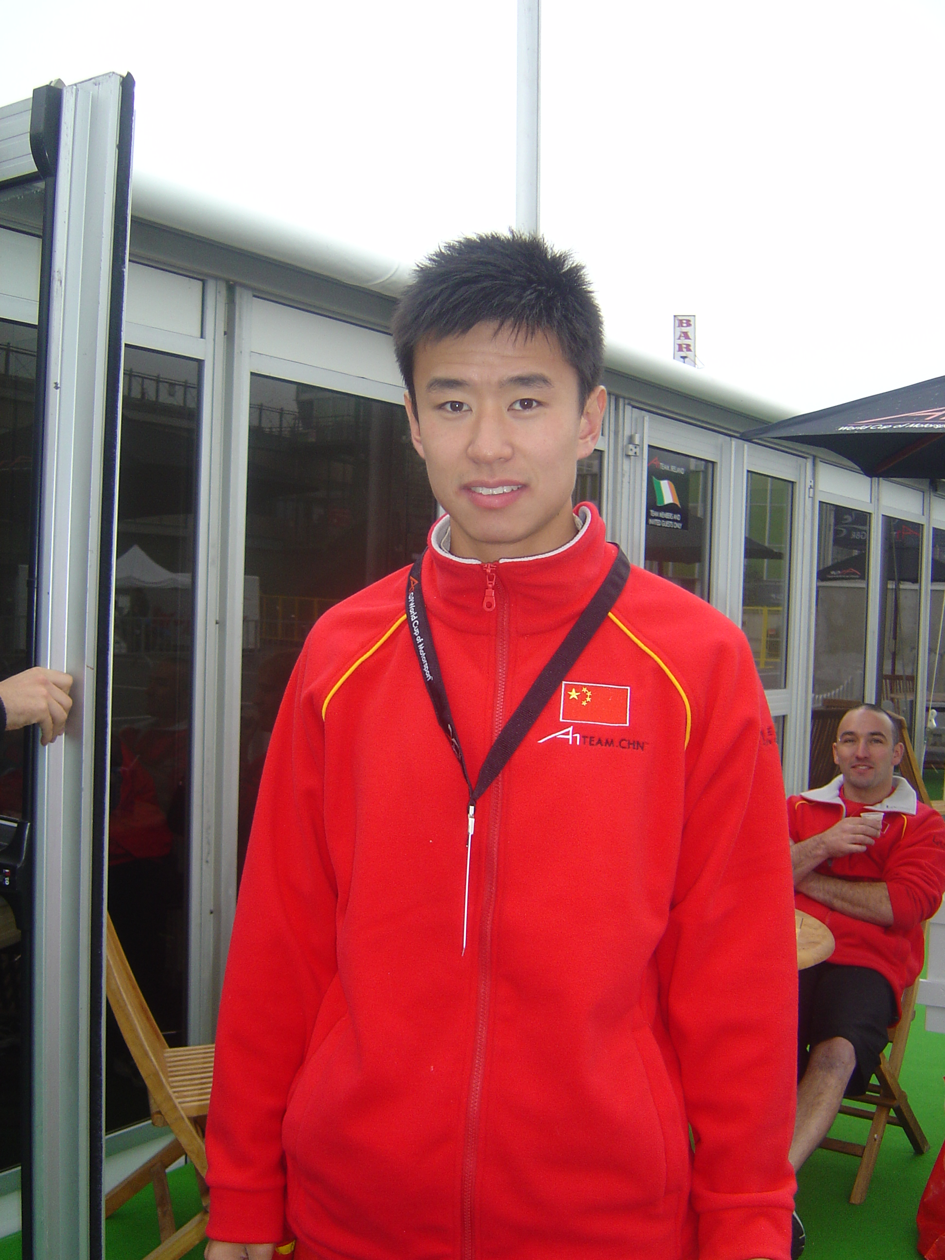 Cheng Cong Fu: the photo was taken during 2007's A1GP race weekend at Brno